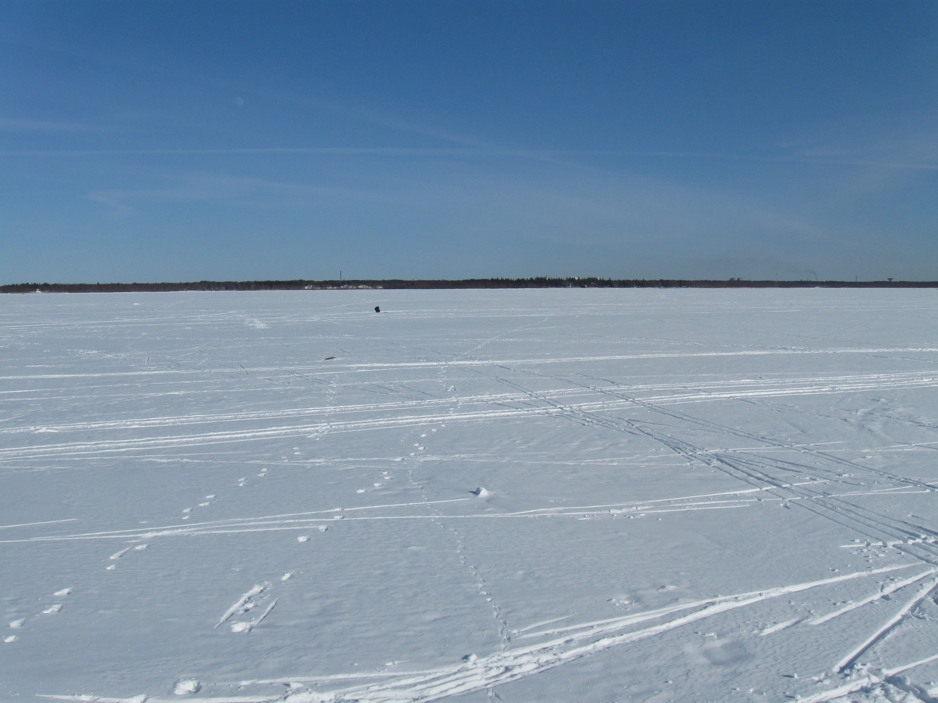 The portion of the Gulf of Bothnia in Kello, Haukipudas, Finland called Kuivasmeri, seen from the island of Kraaseli towards the east.